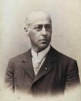 Edouard Suenson (1842-1921), Danish businessman and Commander of the Royal Danish Navy